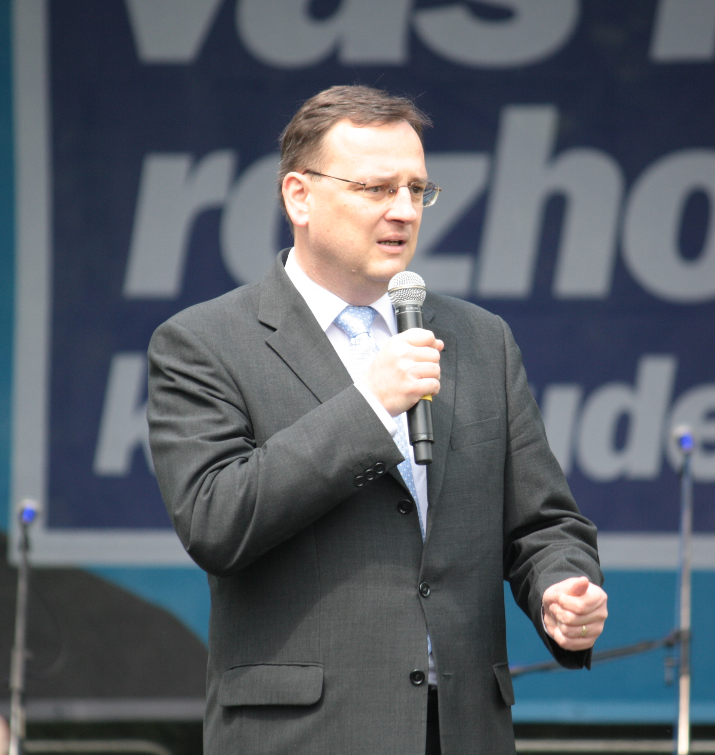 Party chairman Petr Nečas during ODS election campaign meeting on Prague island Kampa